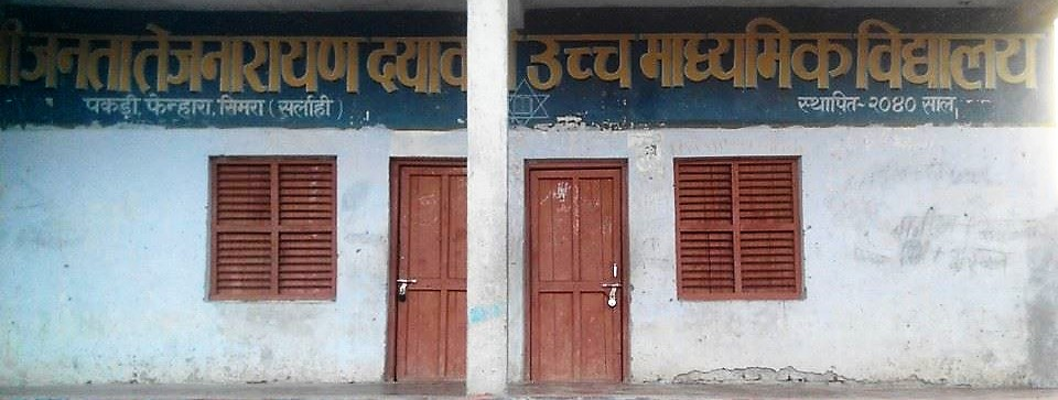 This is the image of shree jtd ma vi school of simara